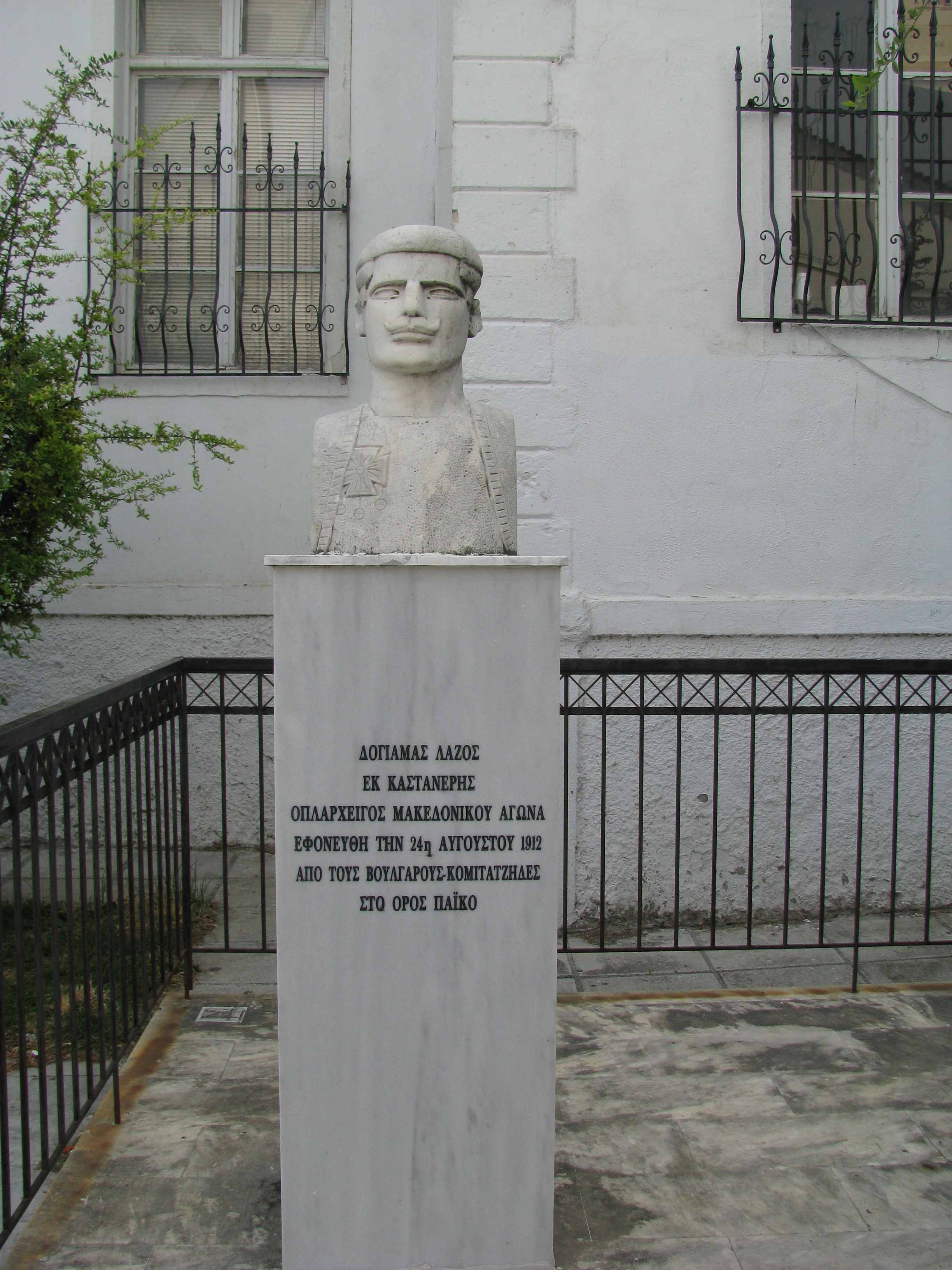 Monument of Lazar Doyamov in Gumendzhe or Goumenissa, Greece